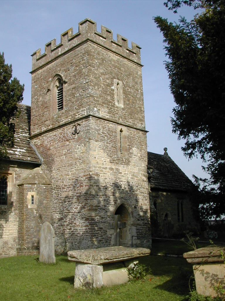 Fifehead Parish Church of St. Mary Magdalene, photographed in 2001. At the bottom right of the picture is the tomb of Thomas Newman, d.1668.